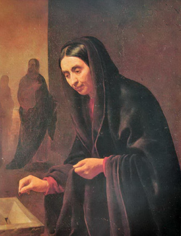 Greek painter Nikolaos Kounelakis (1829-1869):Ovolos of Widow